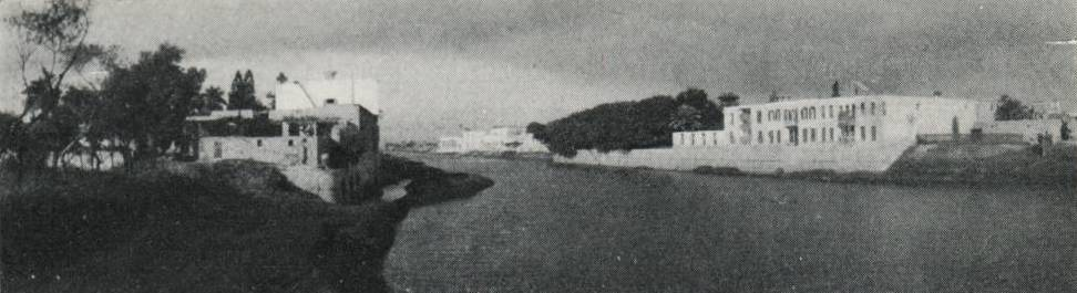 A view of the Nile showing wide, low palaces on either bank.